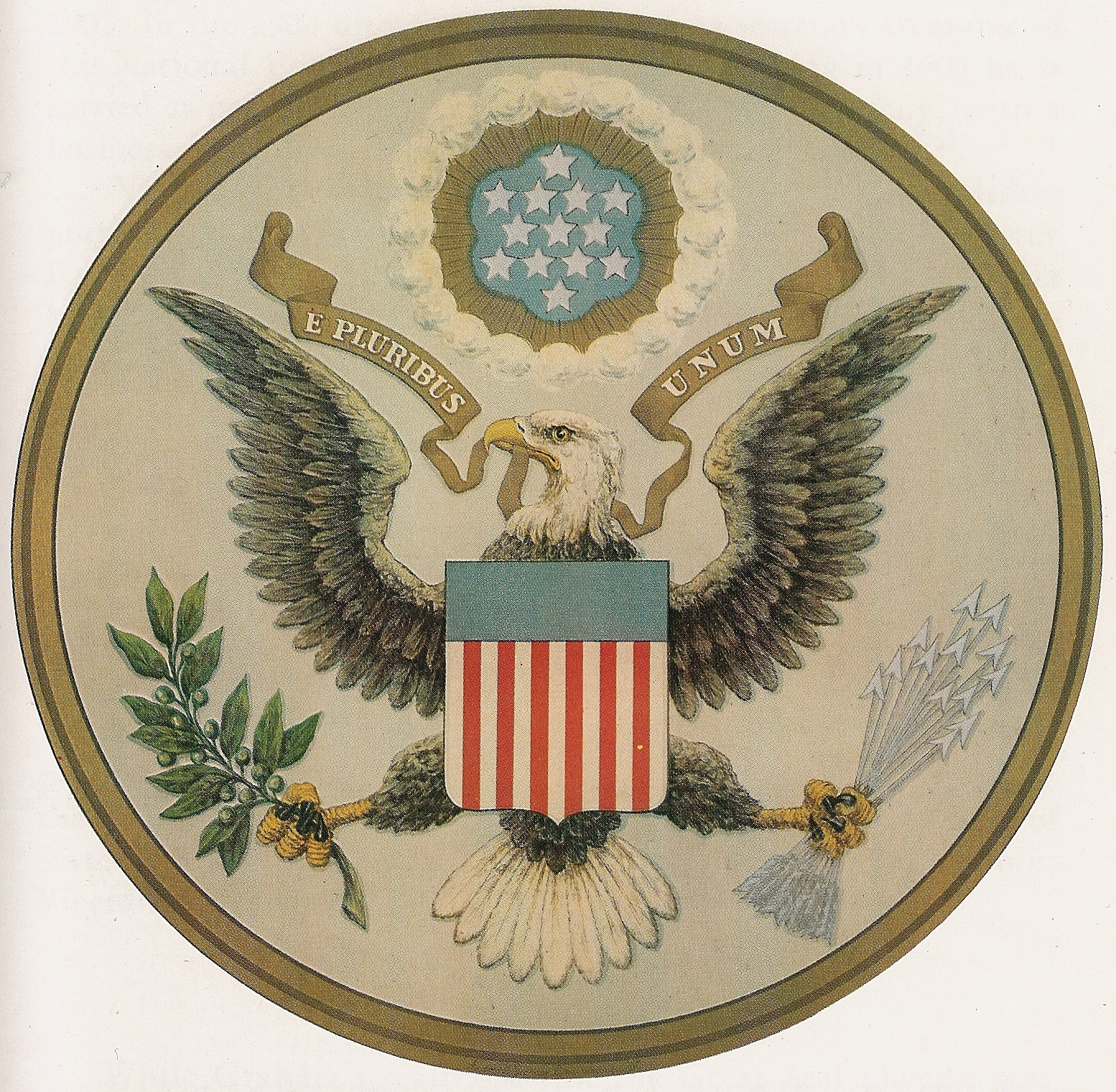 A lithograph of the Great Seal of the United States, made by Andrew B. Graham of Washington D.C. probably in the 1890s, soon after the seal had been greatly redesigned in 1885. This version hung for many years in the office of the keeper of the Great Seal. Graham had once been an employee in the U.S. Coast & Geodetic Survey, but worked as a lithographer from 1888 on.